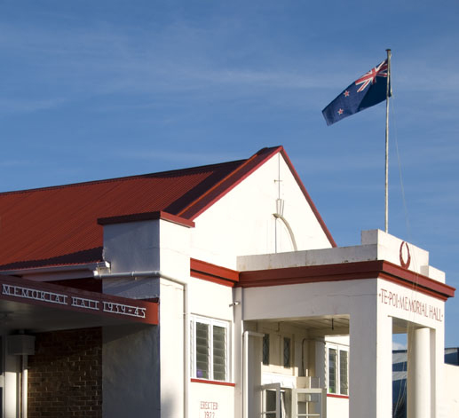 Te Poi Memorial Hall in 2009 with New Zealand flag flying overhead